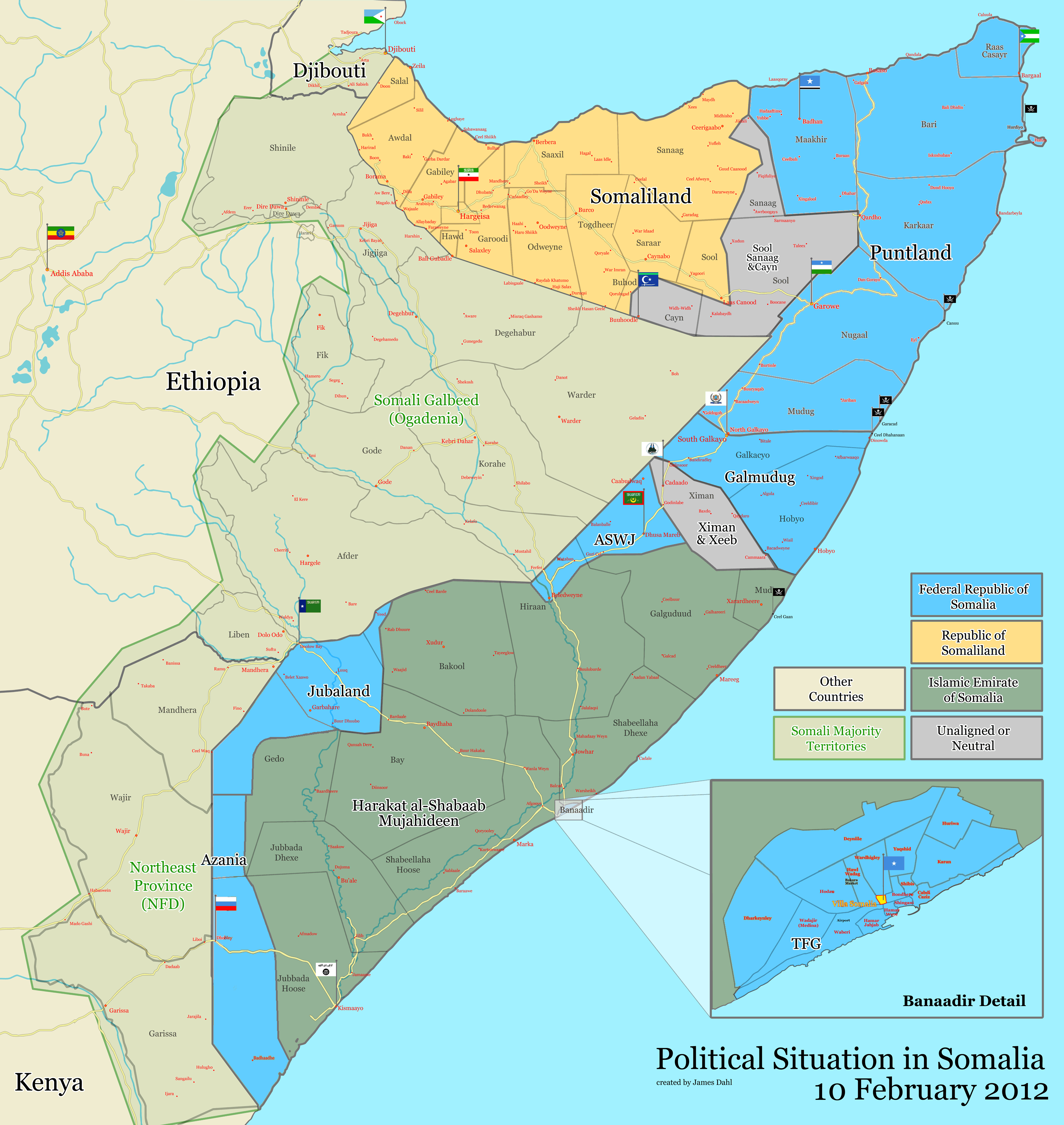 This map shows the states, regions, and districts of Somalia, as well as the current situation in Somalia. (February, 2012. Khatumo State had been proclaimed